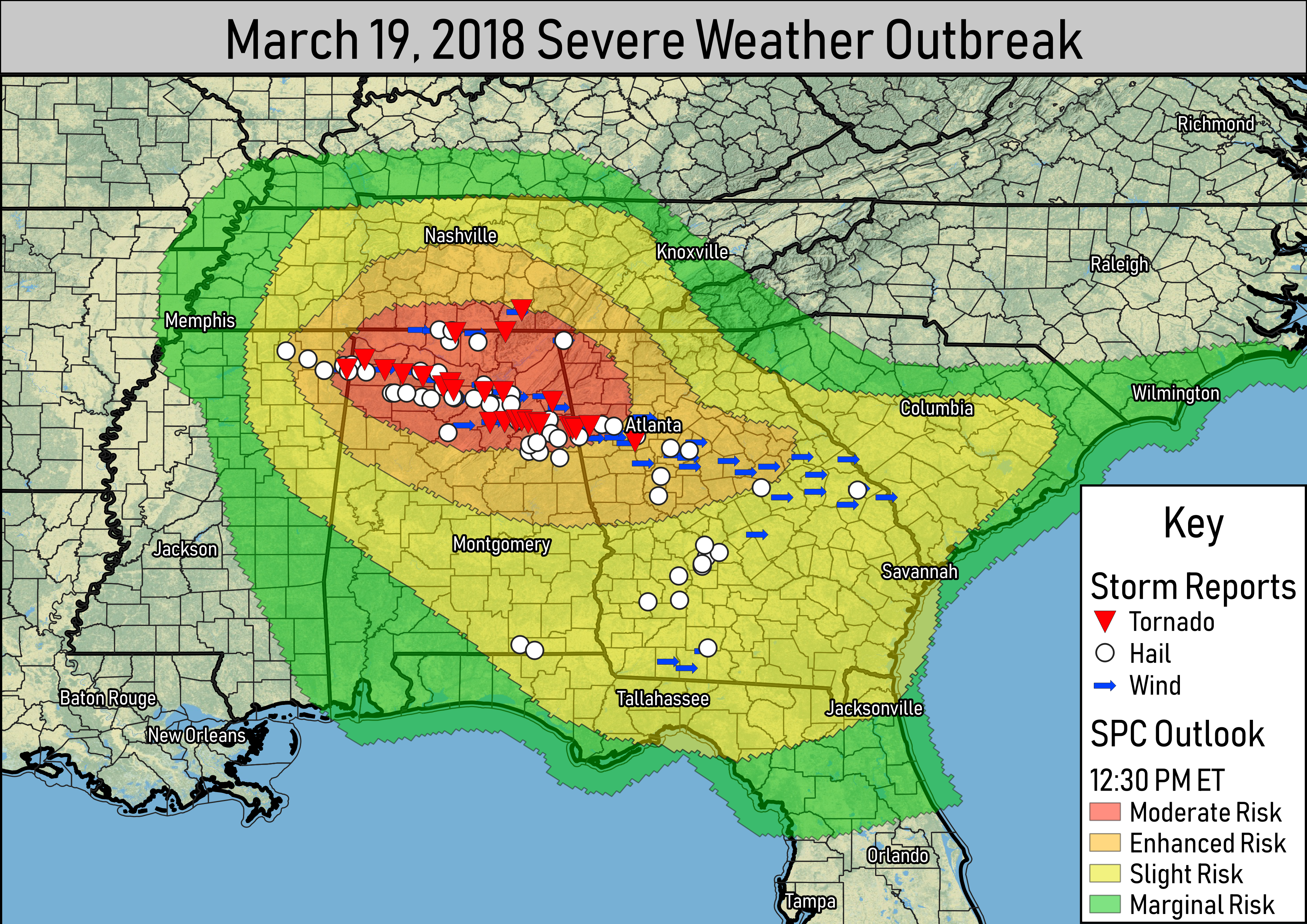 This map shows a filtered version of the SPC storm reports from 03/19/2018, as well as the 1630 UTC outlook issued by the SPC.